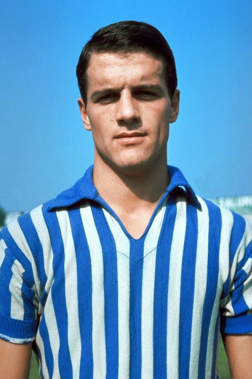 Italian footballer Fabio Capello with SPAL in the 1966–67 season.